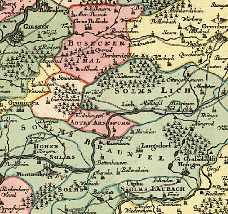 Cropping from Matthäus Seutter's map of Wetteravia (c. 1740-1760) showing the territory of Arnsburg Abbey ("Abtey Arnspurg"). A 1715 Imperial court ruling had confirmed the Abbey's imperial immediacy (Reichsunmittelbarkeit) status, which was objected by the Counts of Solms, whose territories surrounded most of the Abbey.